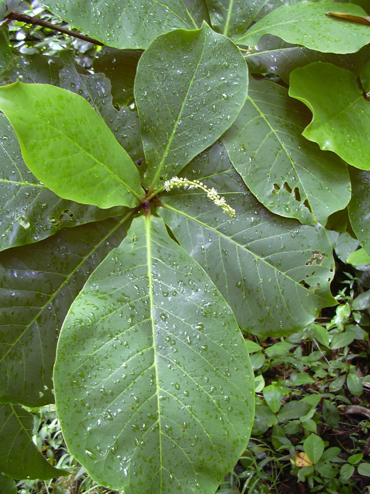 Terminalia catappa (leaves and flowers). Location: Maui, Kiphahulu Haleakala National Park